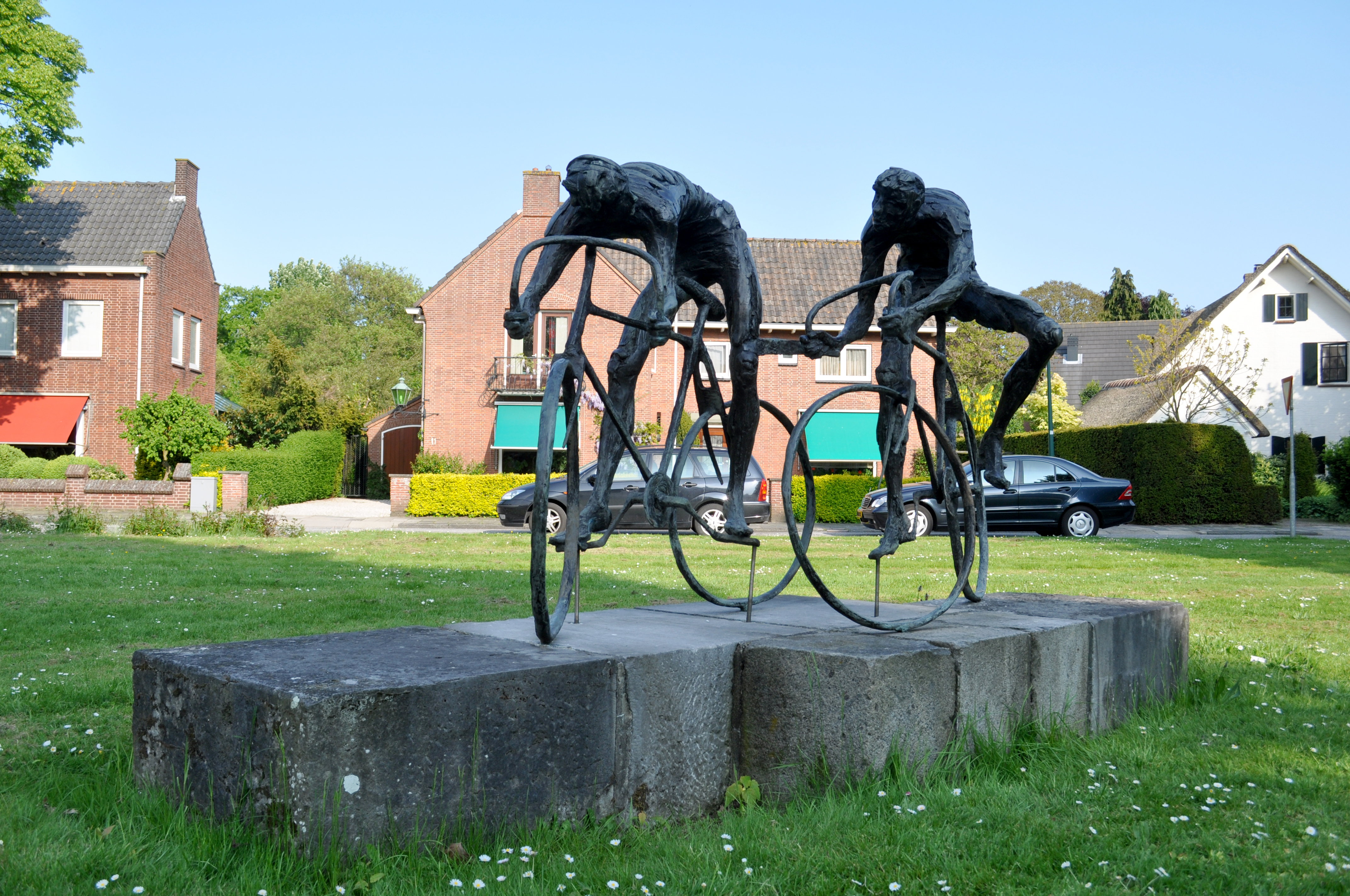 Sculpture "De Wielrenners" (Cyclists) by Jos Pirkner in 1970. Placed at the Oostsingel in Woerden.